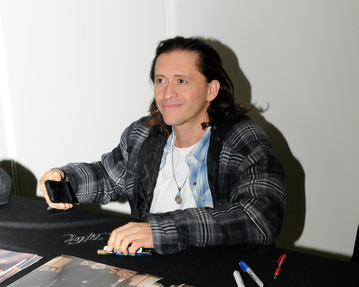 Clifton Collins Jr. @ Weekend Of Horrors 11 - Turbinenhalle Oberhausen, Germany 2013